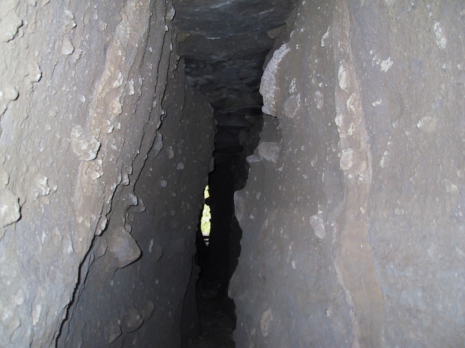 Crack part of Tonkararin ruin in Kumamoto